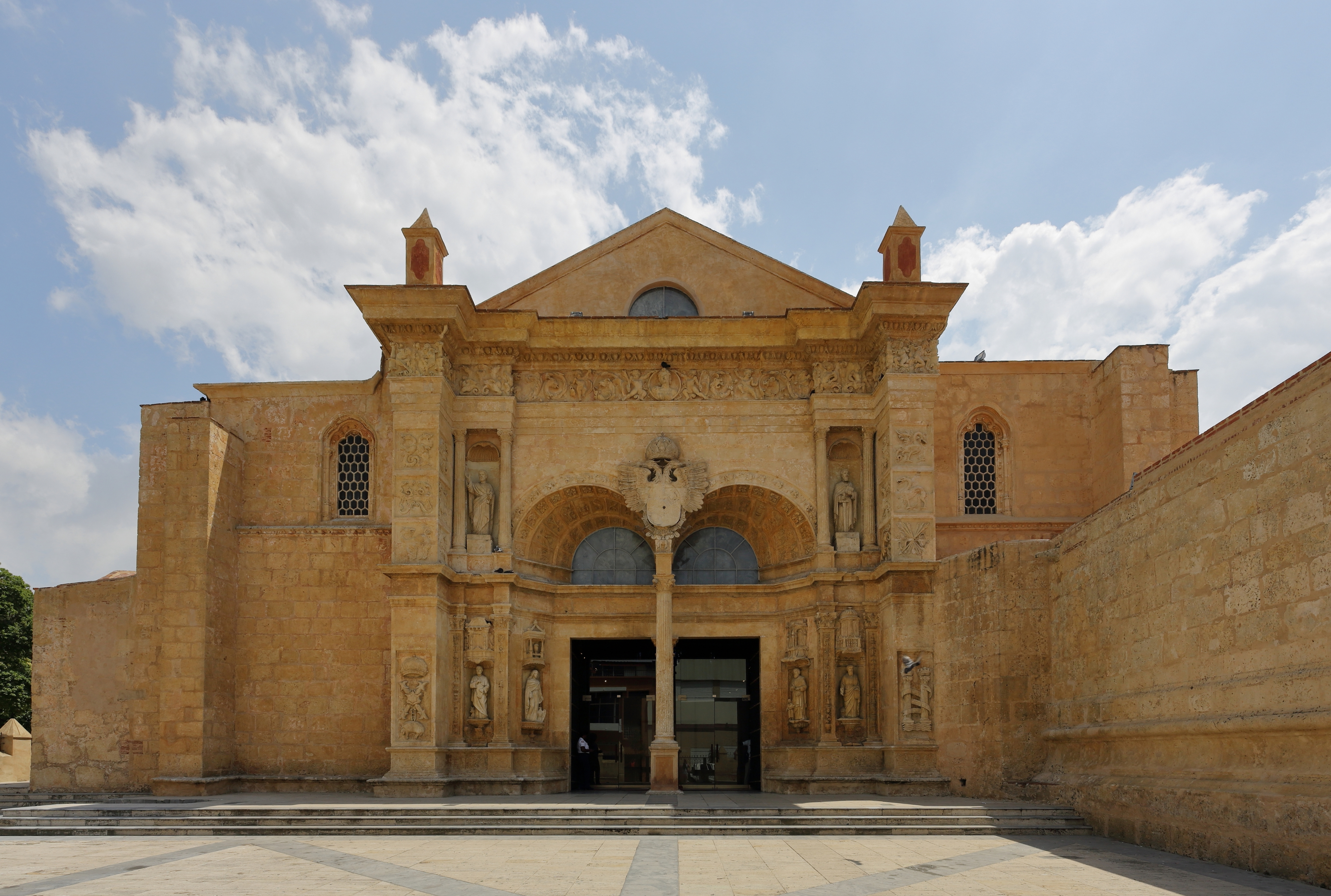 Catedral Santa María La Menor, front entrance, March 2016. Part of UNESCO World Heritage Site Ref. Number 526